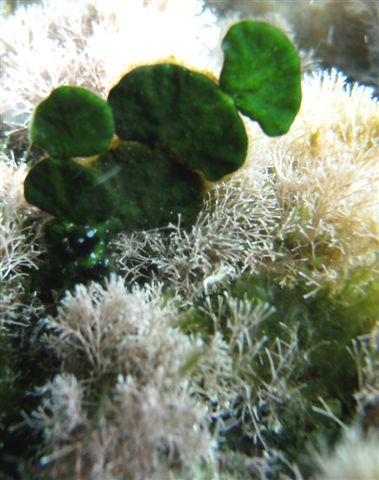 Halimeda tuna - calcareous green alga